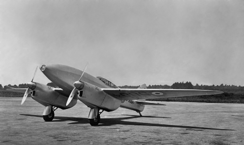 De Havilland DH.88 (K5084), 1936